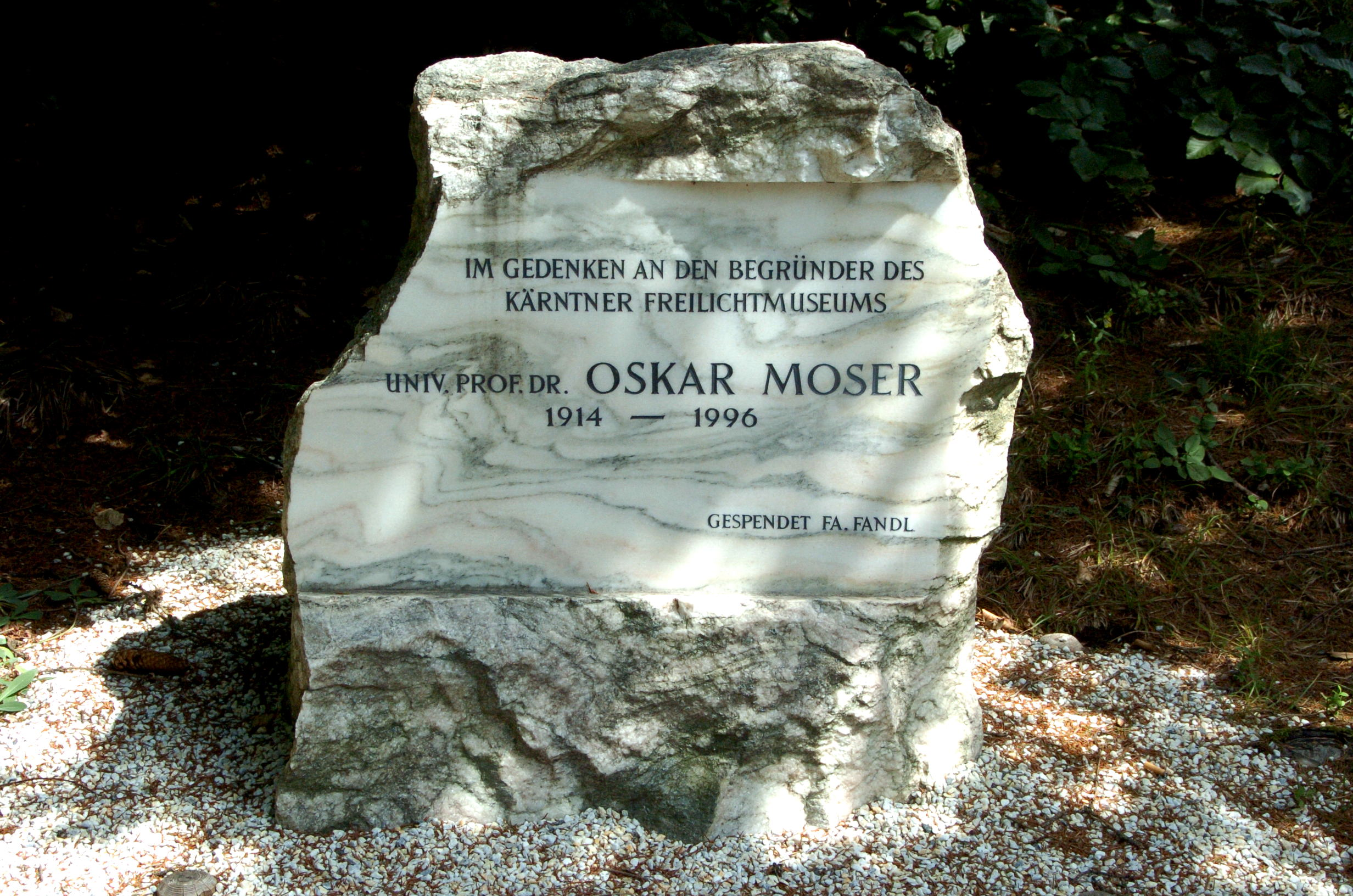 Memorial inscription stone for the founder Oskar Moser, exposed at the open air-museum (Freilichtmuseum) in Maria Saal, district Klagenfurt-Land, Carinthia, Austria